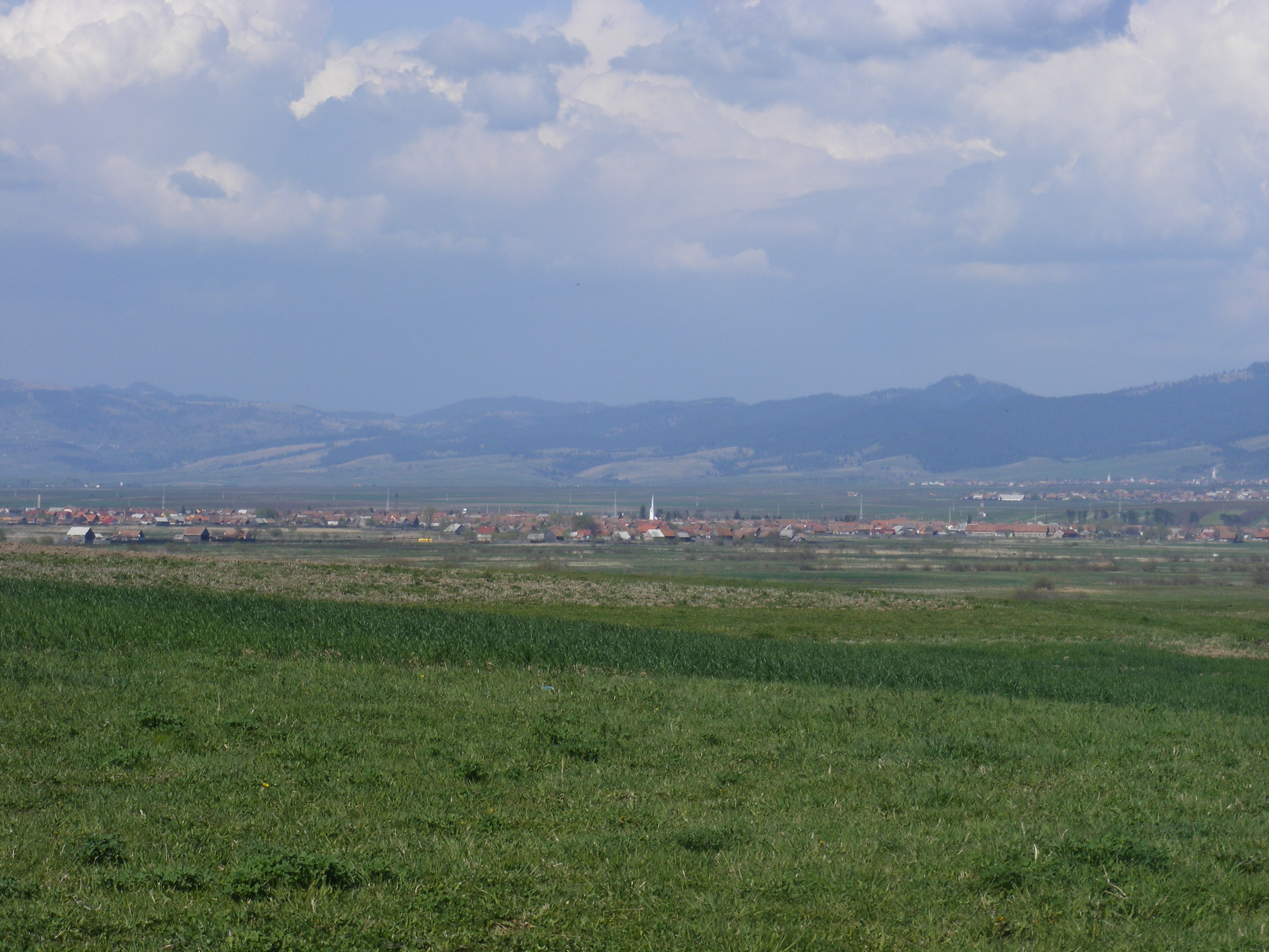 Csíkcsicsó (Ciceu) village